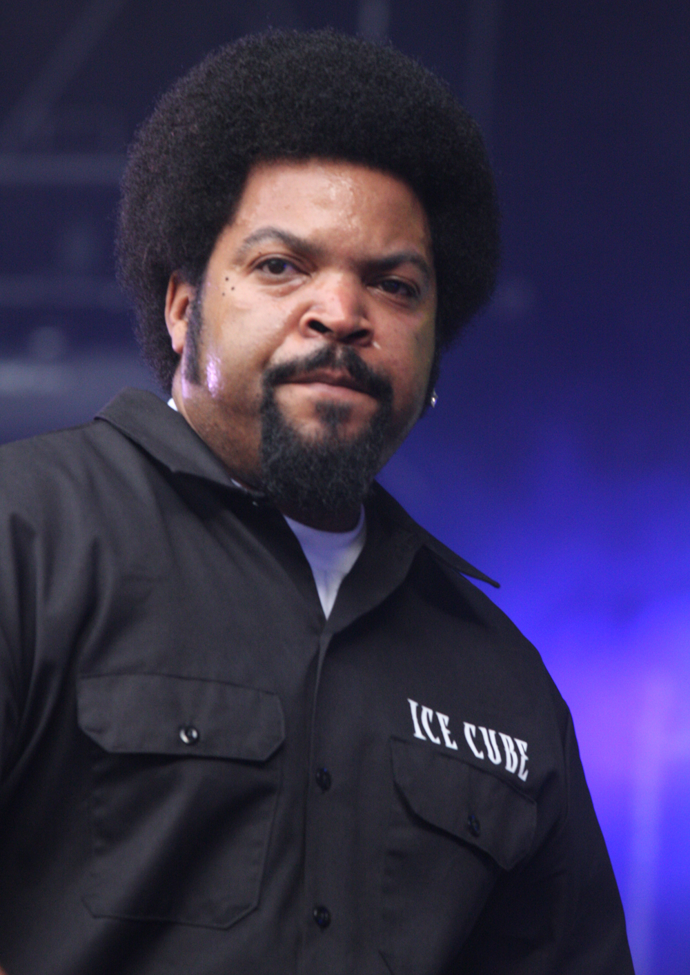 Ice Cube Performs at Supafest 3 Sydney, Australia 2012.